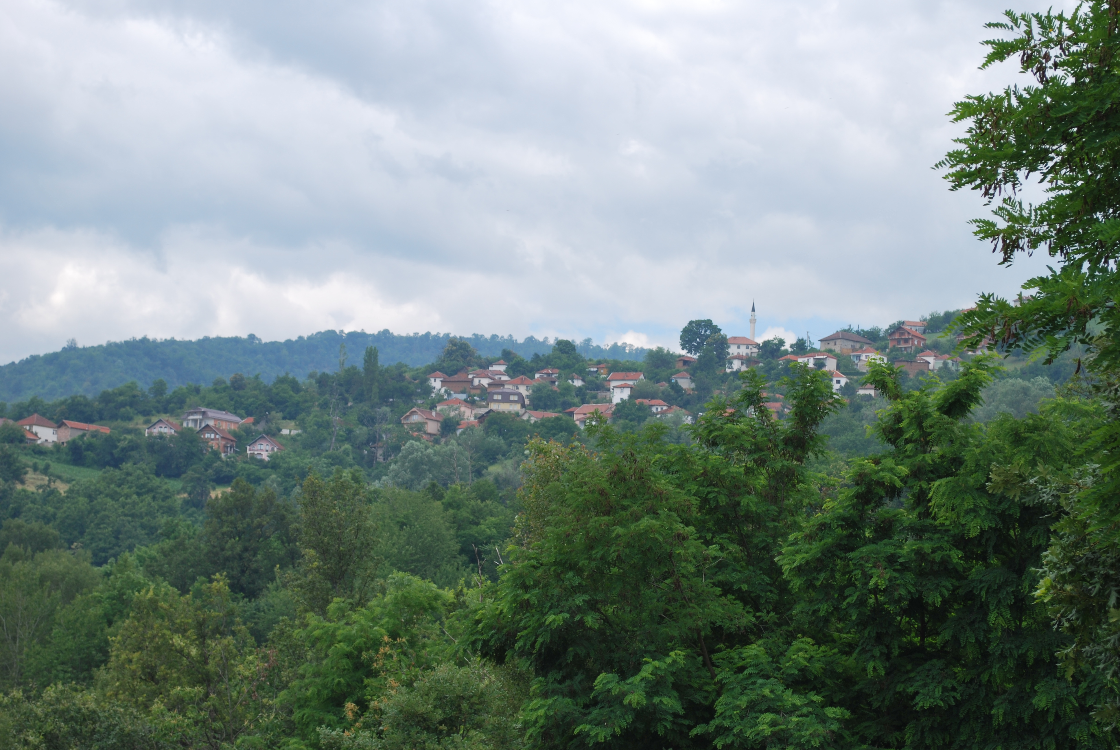 Vranovci, Macedonia